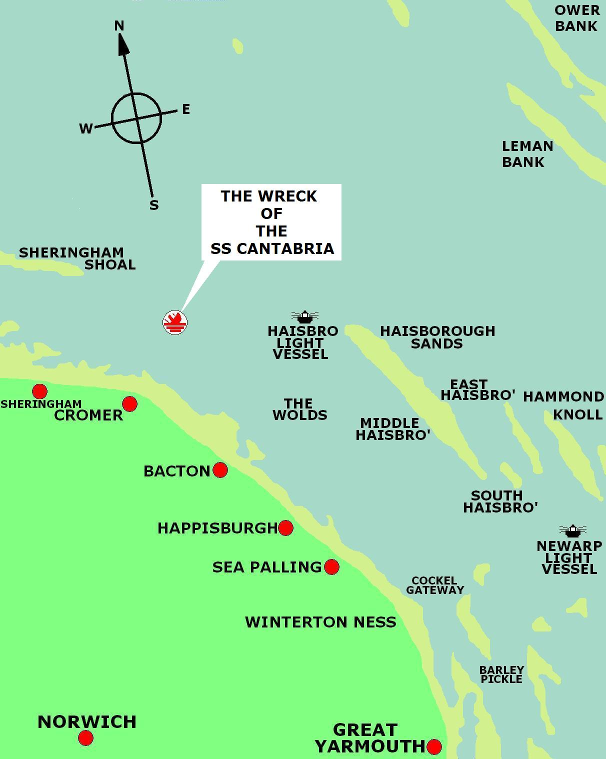 Map of the Norfolk Coast showing the position of the wreck of the SS Cantabria which was sunk in 1939